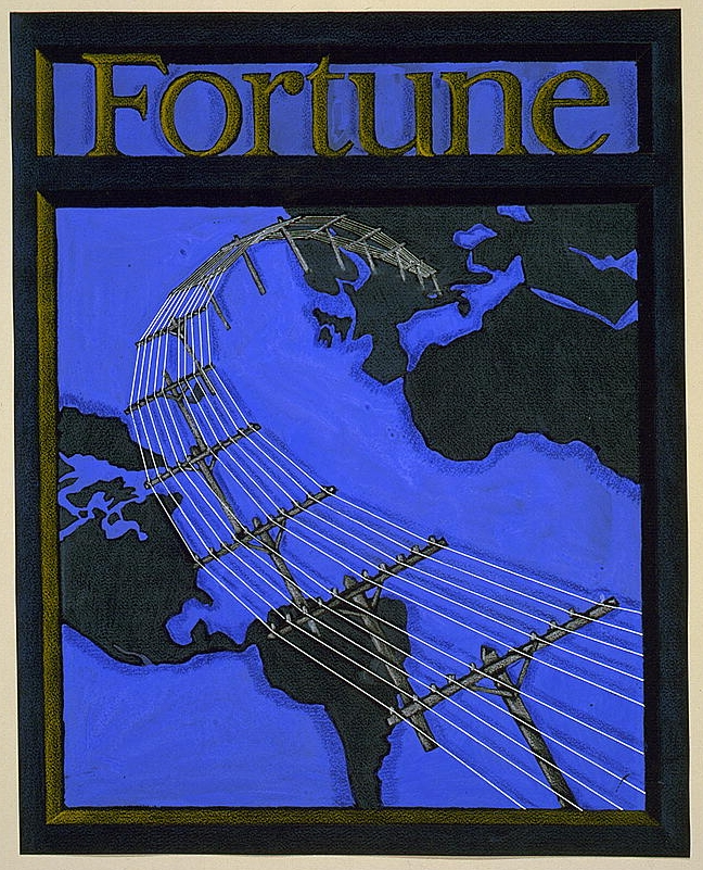 Cover proposal for Fortune magazine showing telephone lines spanning the globe by German painter Winold Reiss (1886-1953). 1 drawing on black paper: graphite, pastel, ink, and gouache, color.